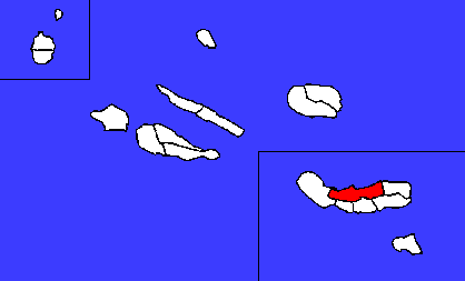 Location of the Portuguese municipality of Ribeira Grande within the Azores archipelago. Made by Afonso Silva.